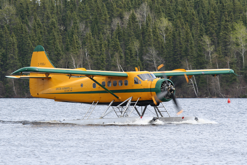 Airtech Canada DHC-3/1000 Otter C-FODJ powered by a PZL Kalisz ASz-62IR engine